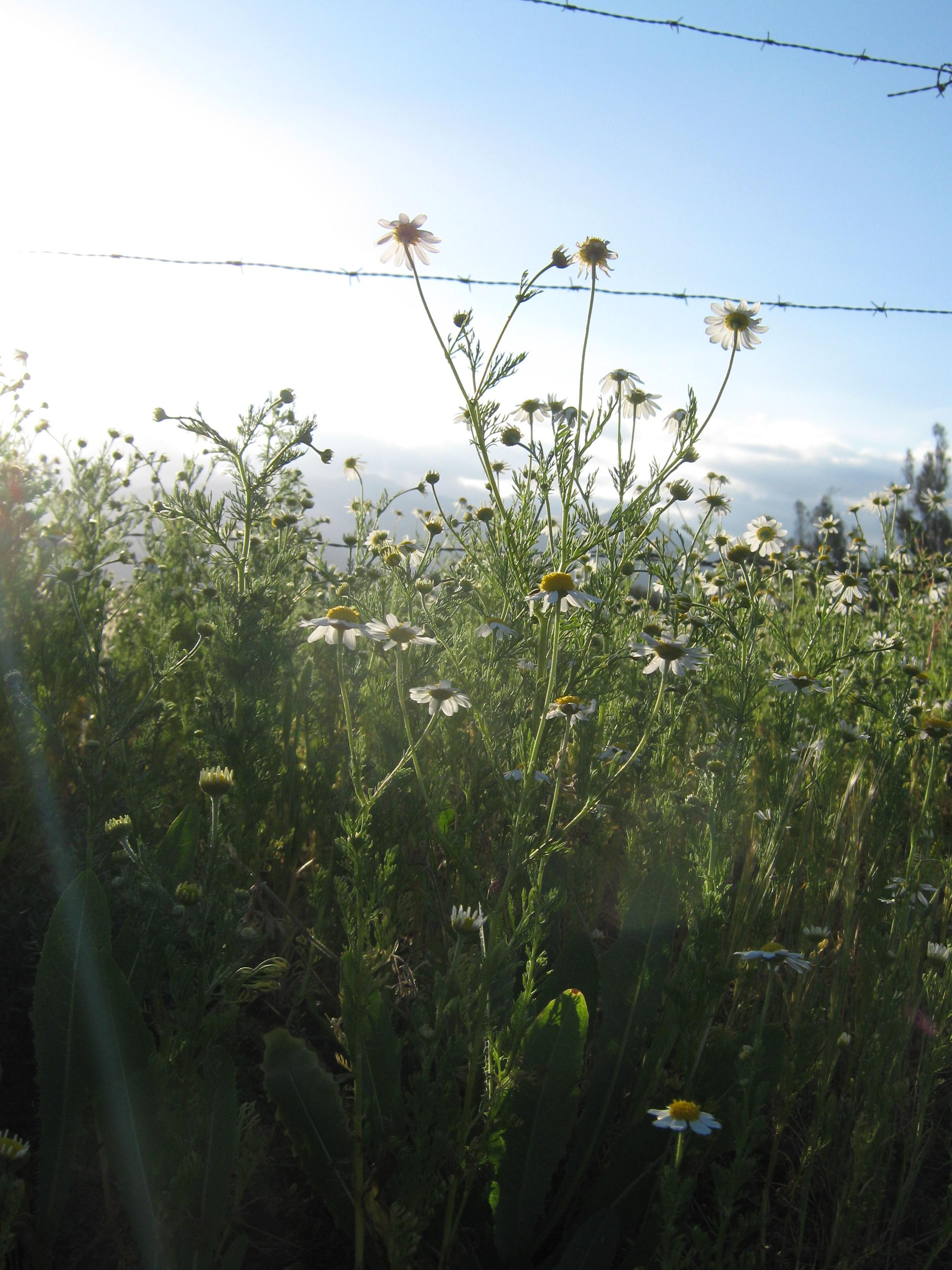 corn camomile Anthemis arvensis Noviciado-Lampa Road, Santiago Chile